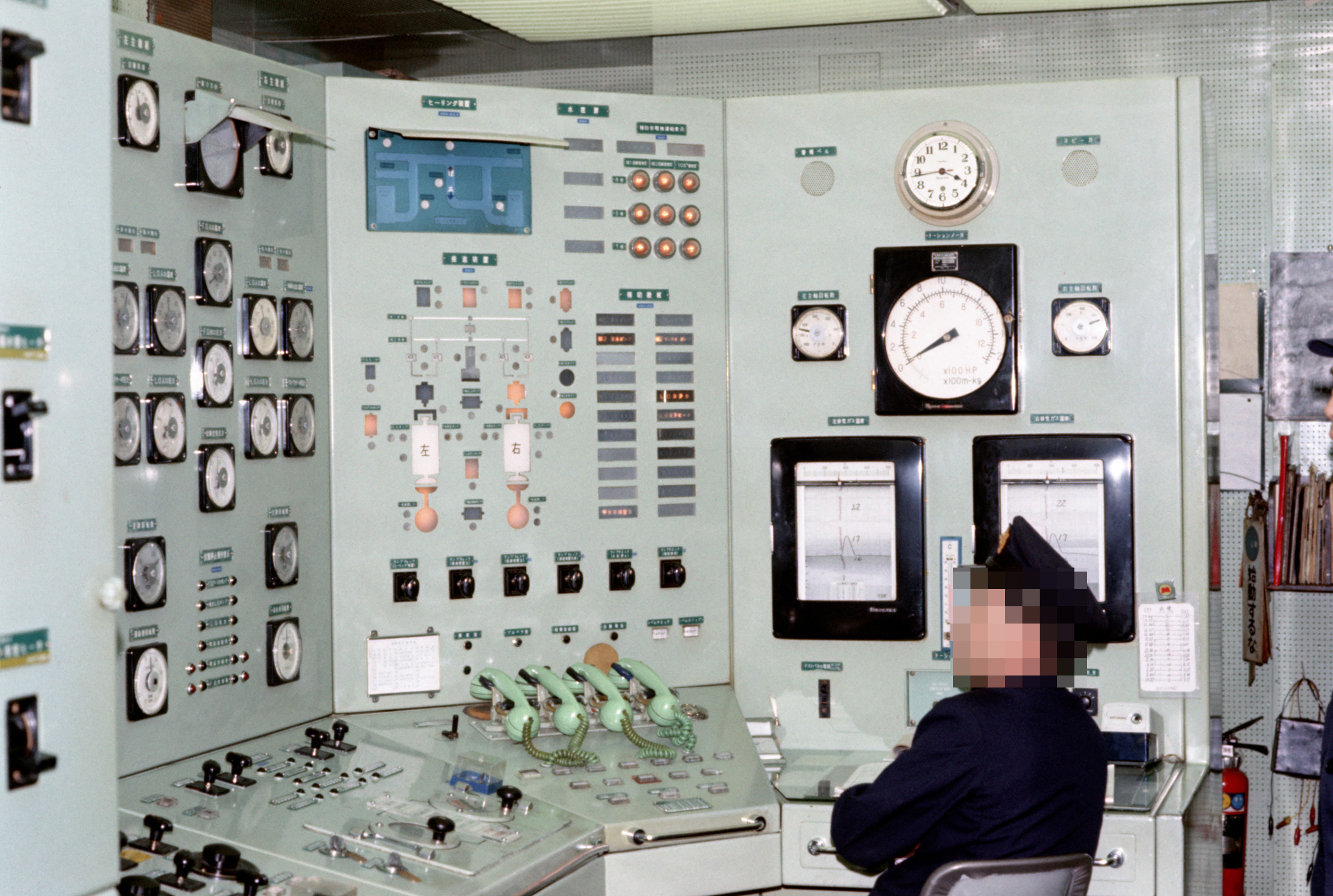 MS SANUKI MARU1 Engine control room. Left side is Bow side.